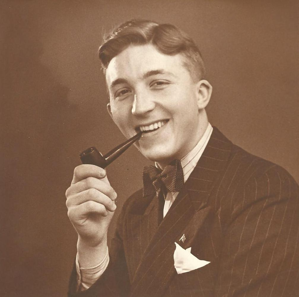 Jan Damgaard Kiær (1919-1945), Danish resistance member